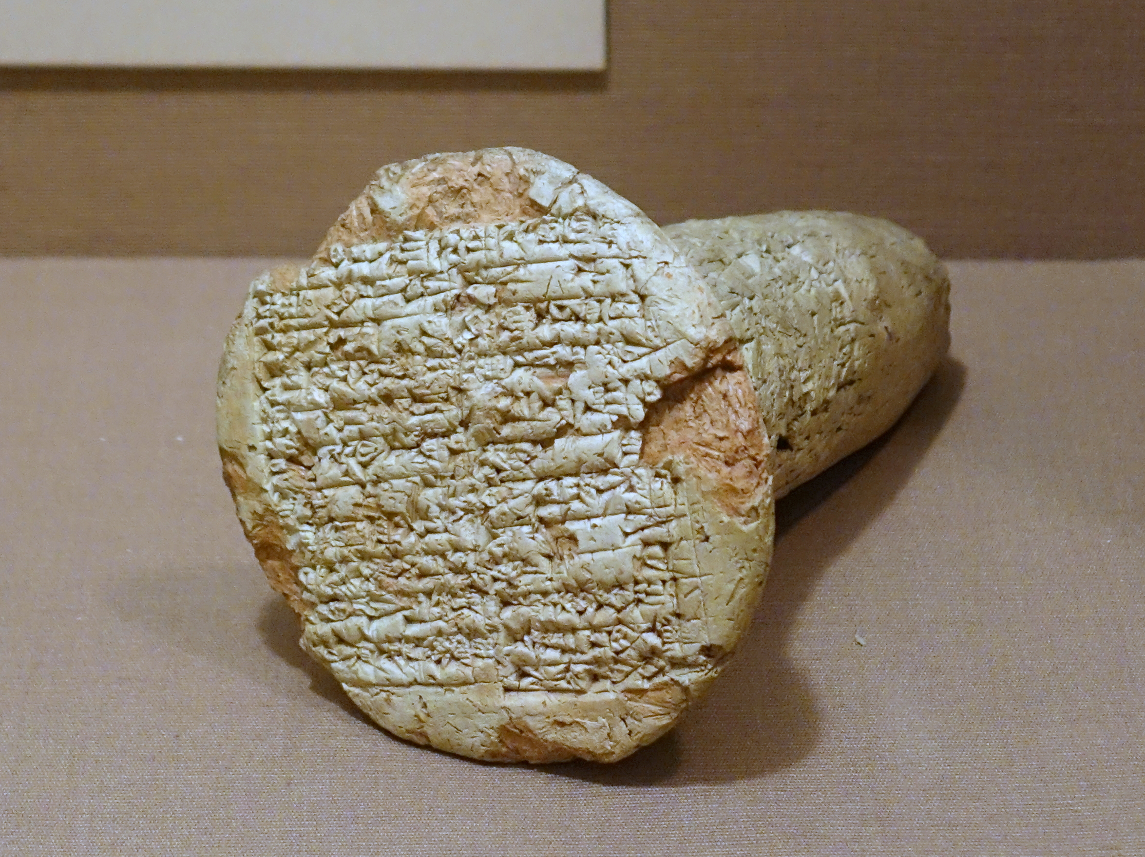 Exhibit in the Oriental Institute Museum, University of Chicago, Chicago, Illinois, USA. This work is old enough so that it is in the public domain.